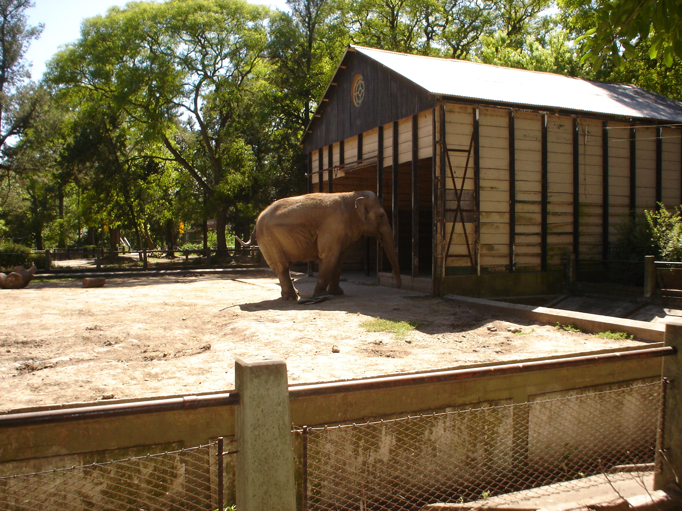 Pelusa, the elephant of the Jardín Zoológico y Botánico of La Plata city, Buenos Aires, Argentina.